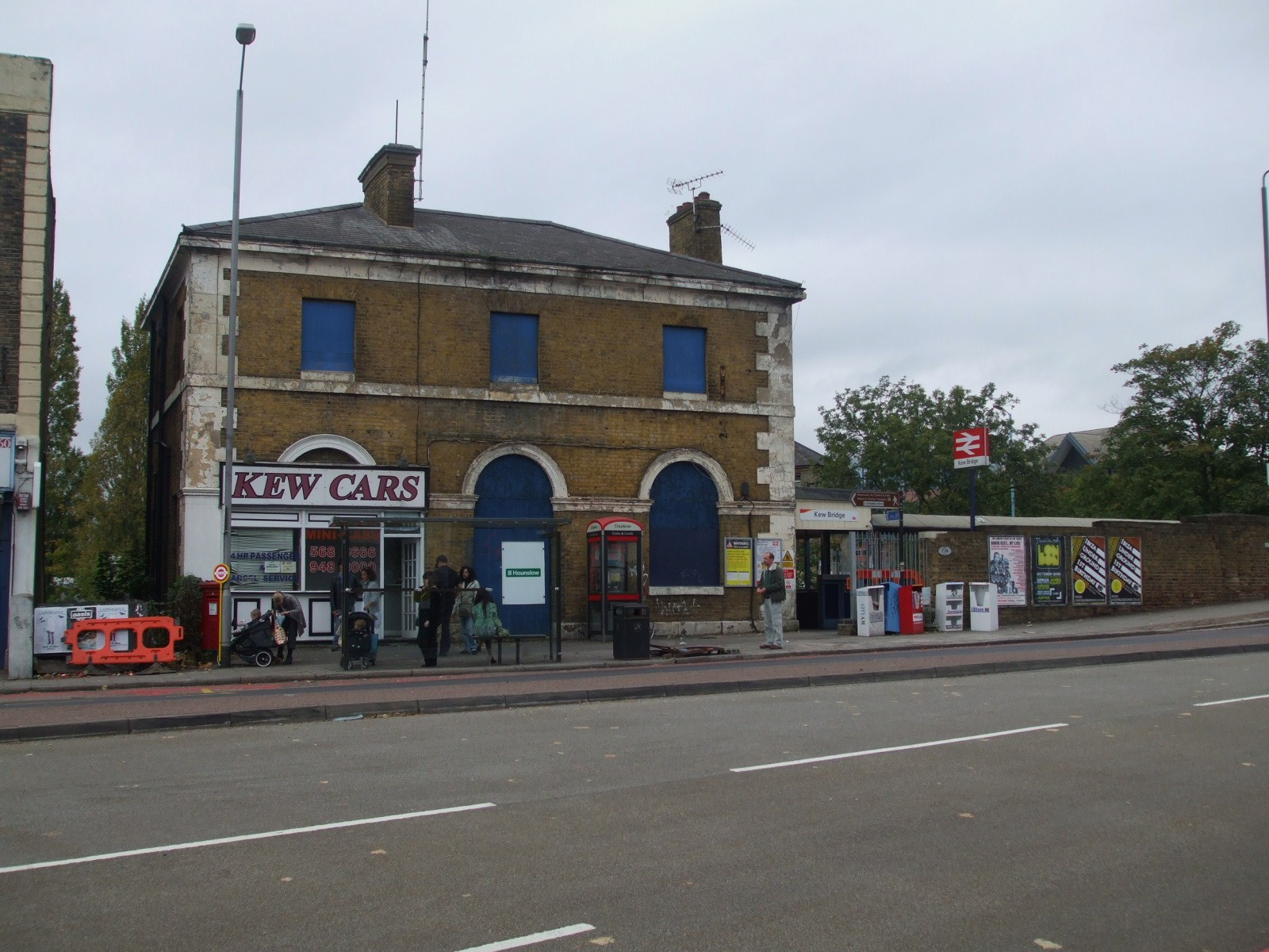 Kew Bridge station building, largely disused, though the entrance is to the right, near the signage.